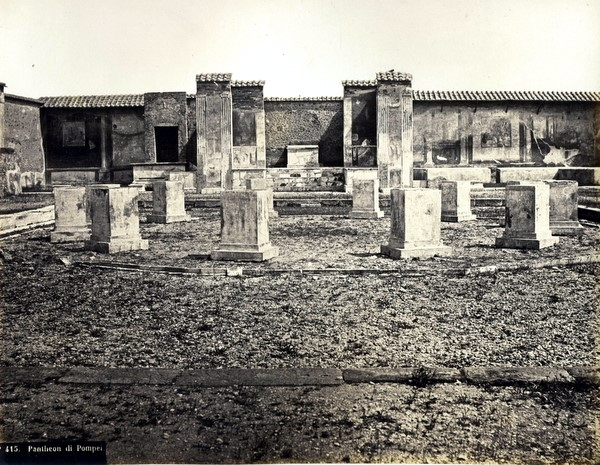 Roberto Rive (18?-1889), "Pantheon temple in Pompeii" (really the market hall, Macellum). Catalogue # 415.